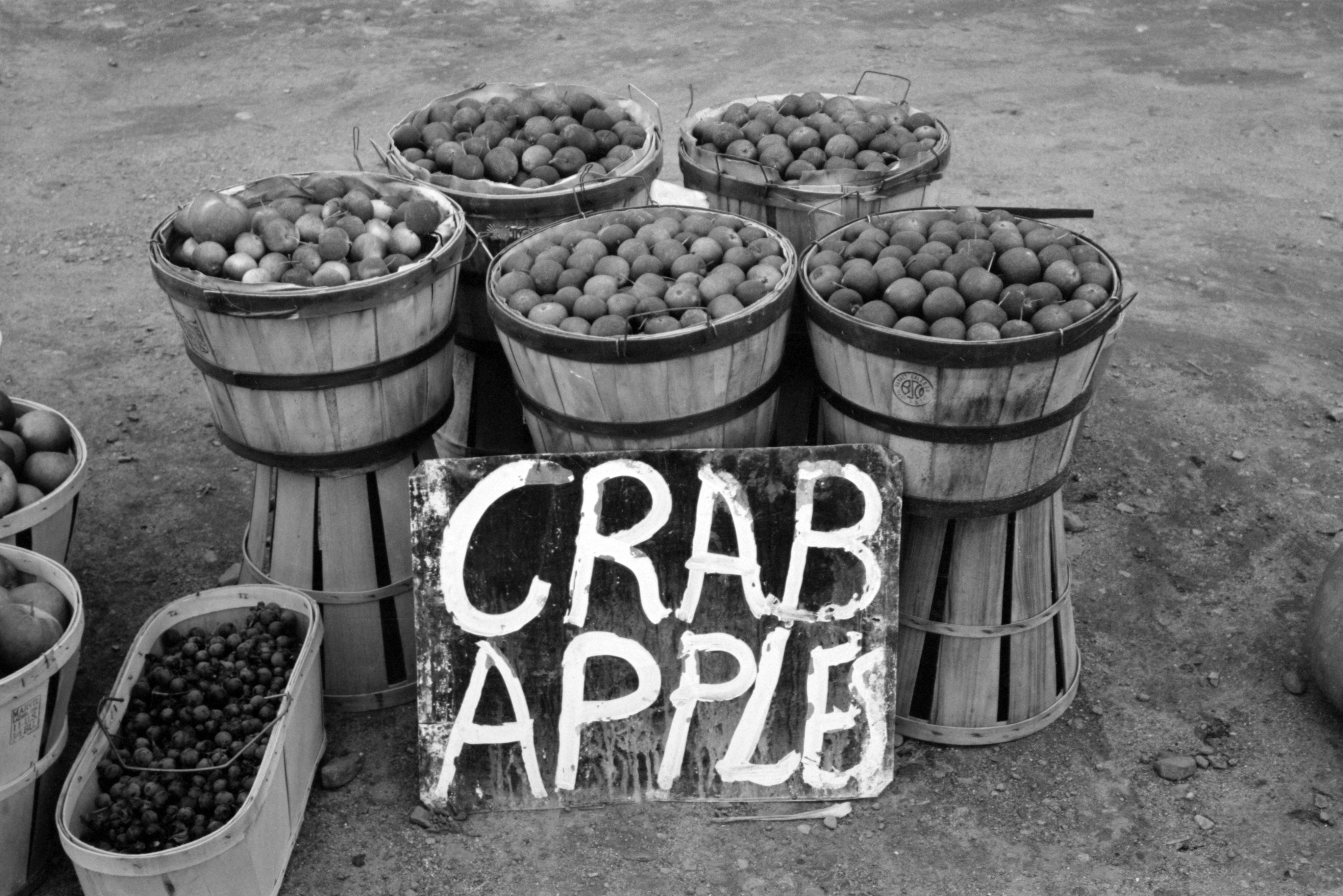 Crab apples displayed at roadside stand near Berlin, Connecticut. Taken as part of the Farm Security Administration project.